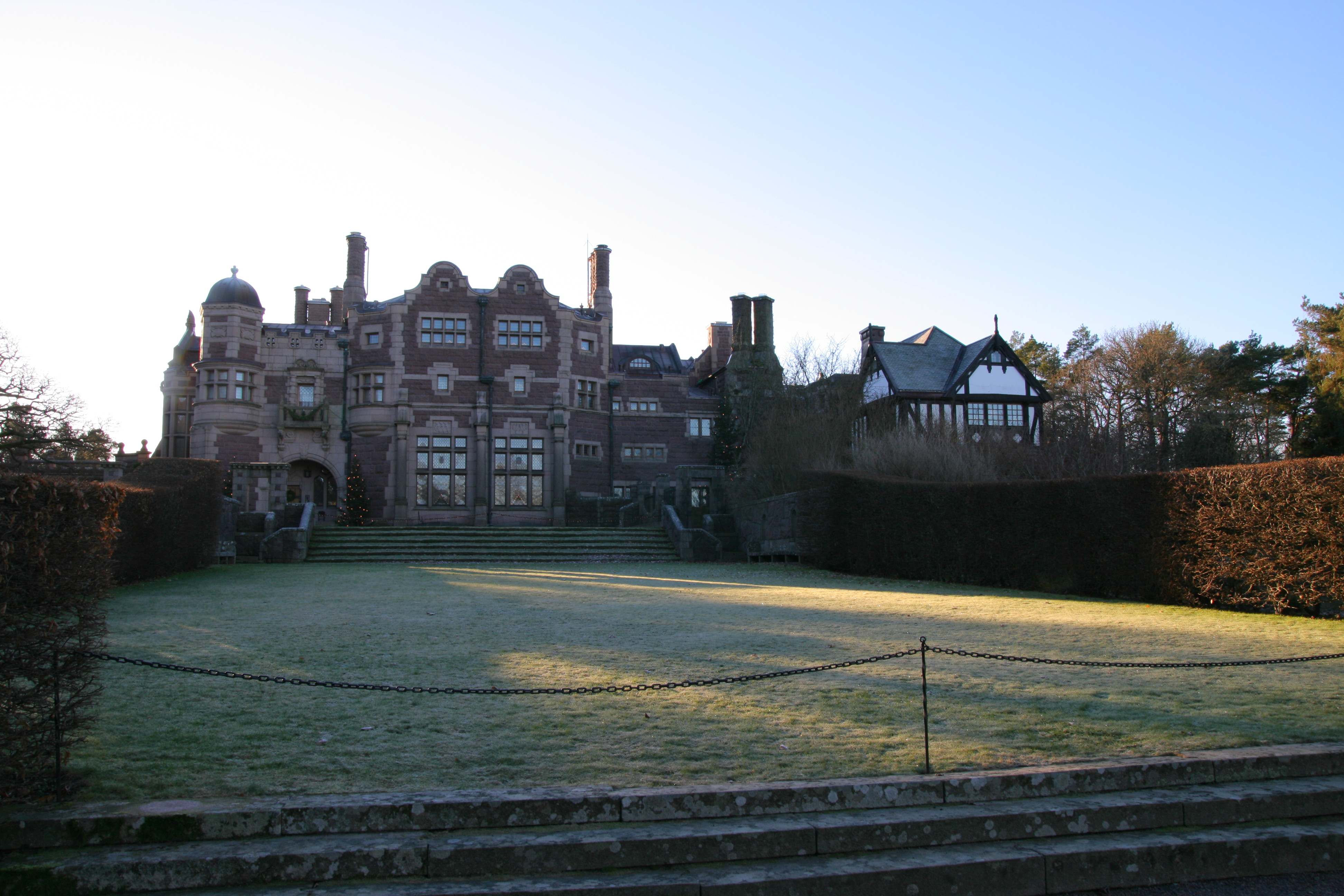 Frontside view of the castle of Tjolöholm, south of Kungsbacka, Sweden.